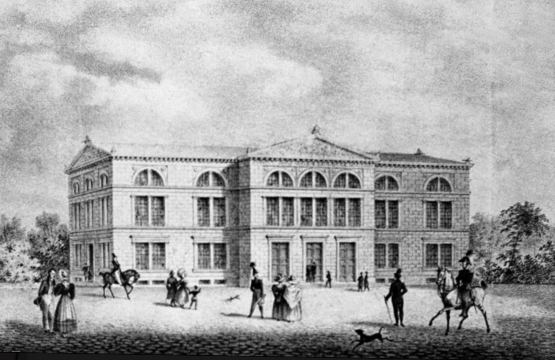 Old school 2